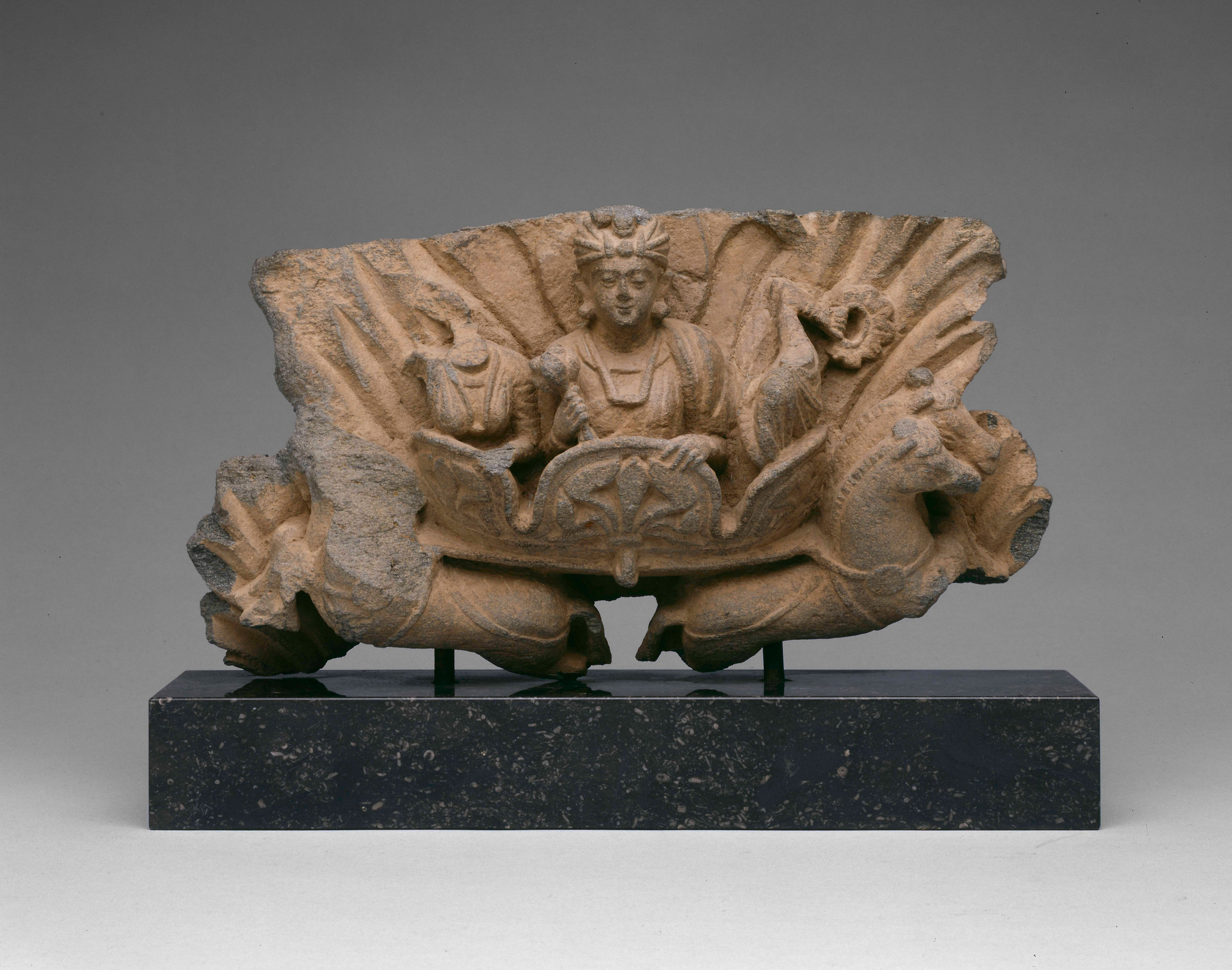 Corinthian Capital with Sun God Surya Riding a Chariot (Quadriga) Gandhara 100-200 CE